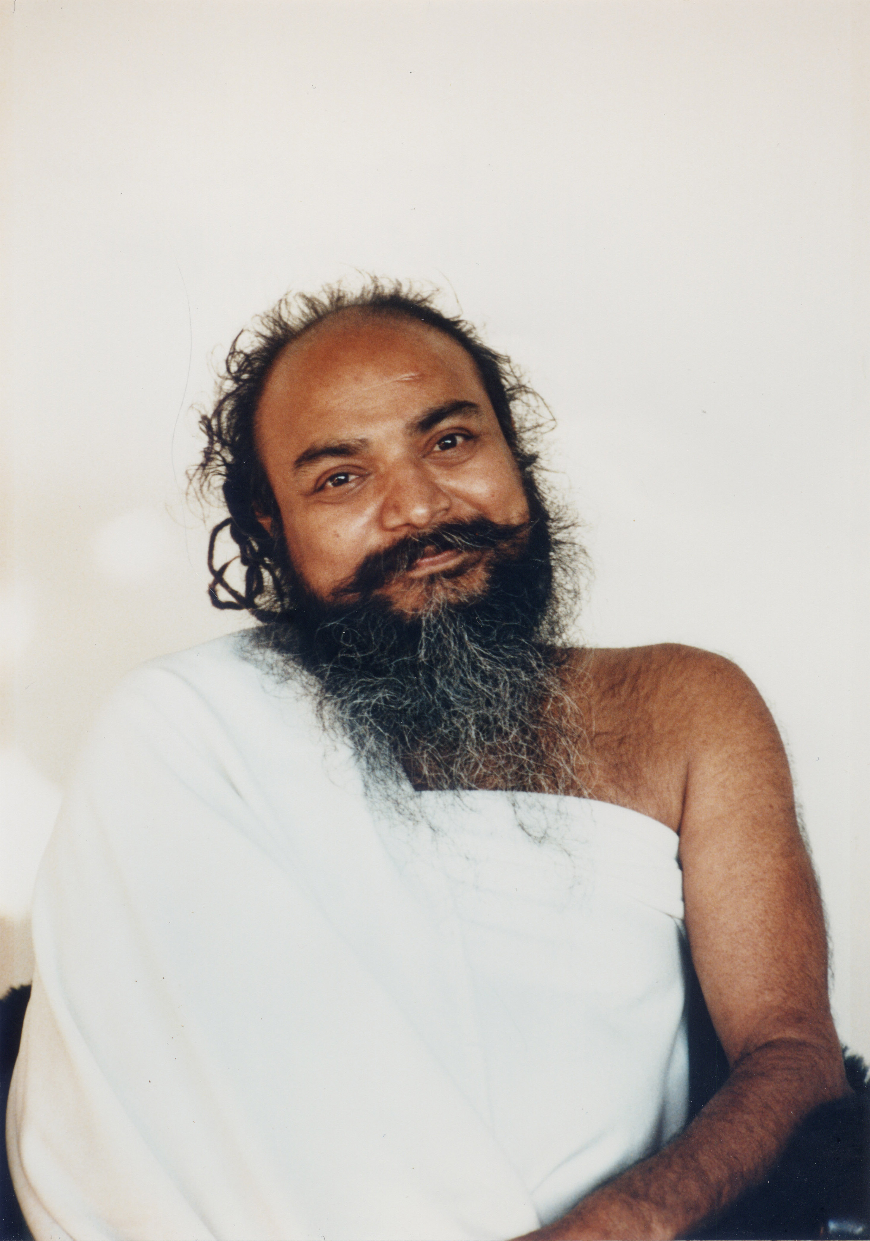 Photograph of Shivabalayogi taken in Seattle on December 4, 1988.